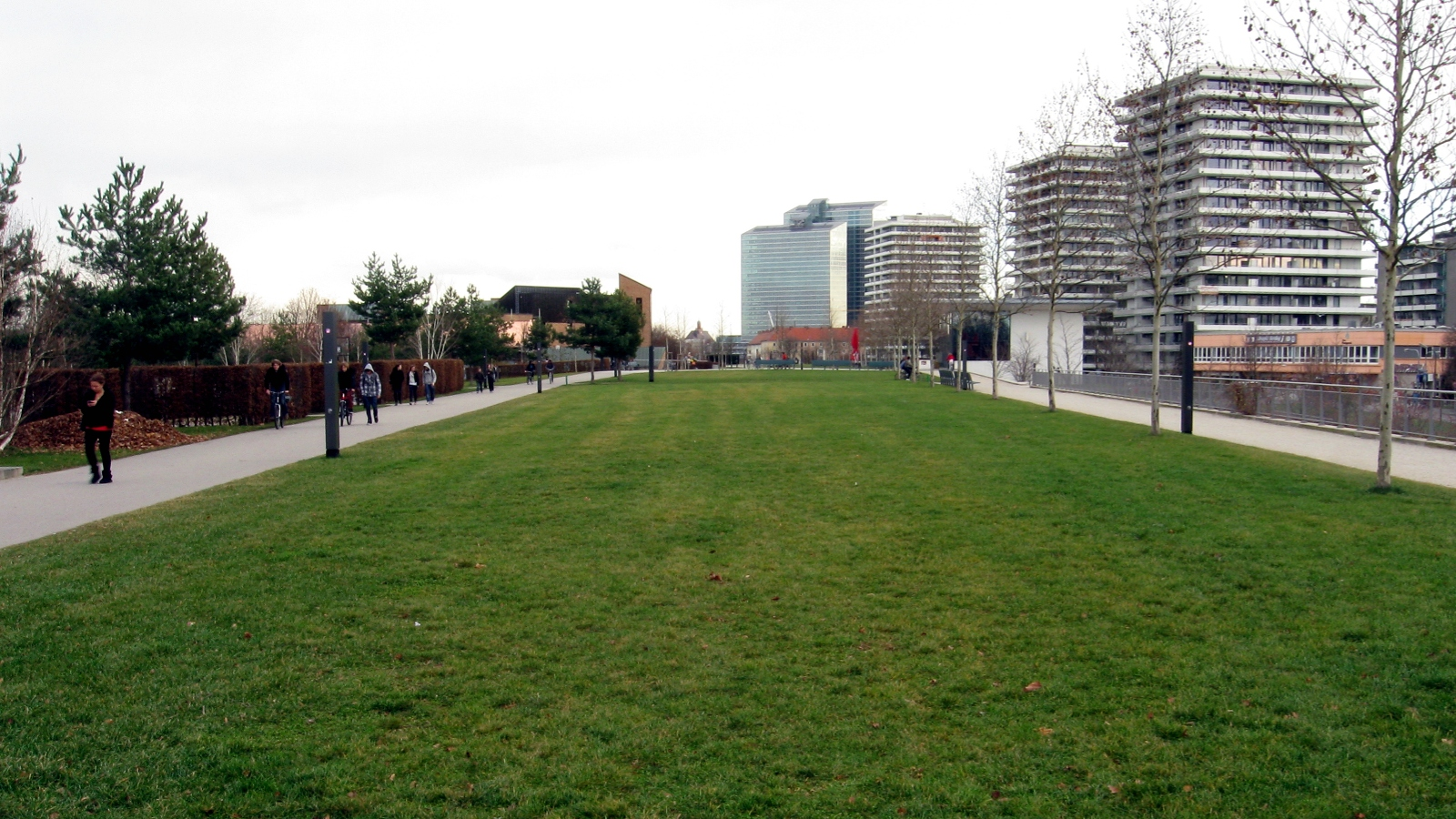 Petuelpark in Munich (Bavarian, Germany) near “Platz an der Pfennigparade” view eastwards